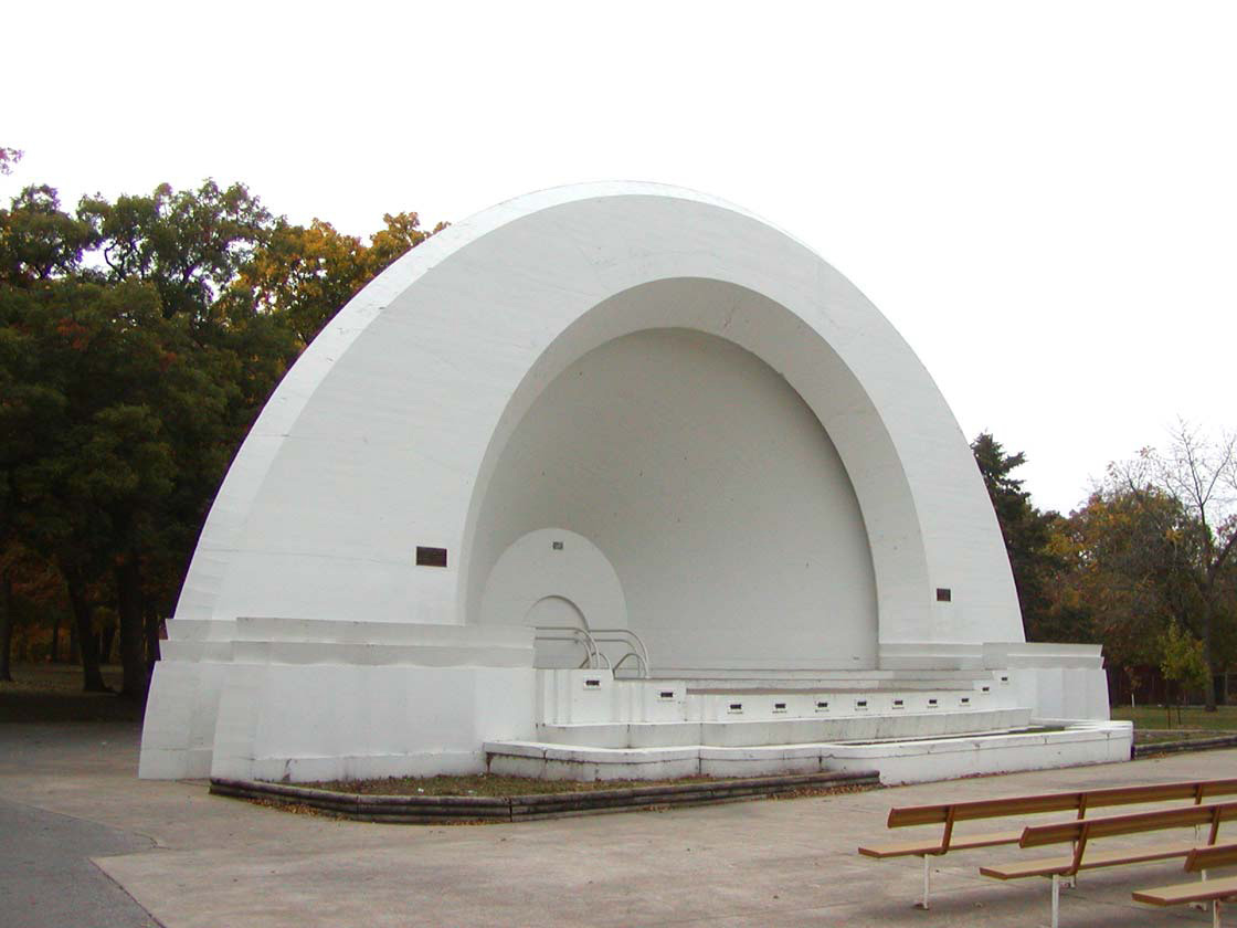 Oleson Park Music Pavilion, Fort Dodge, Webster Co. Iowa